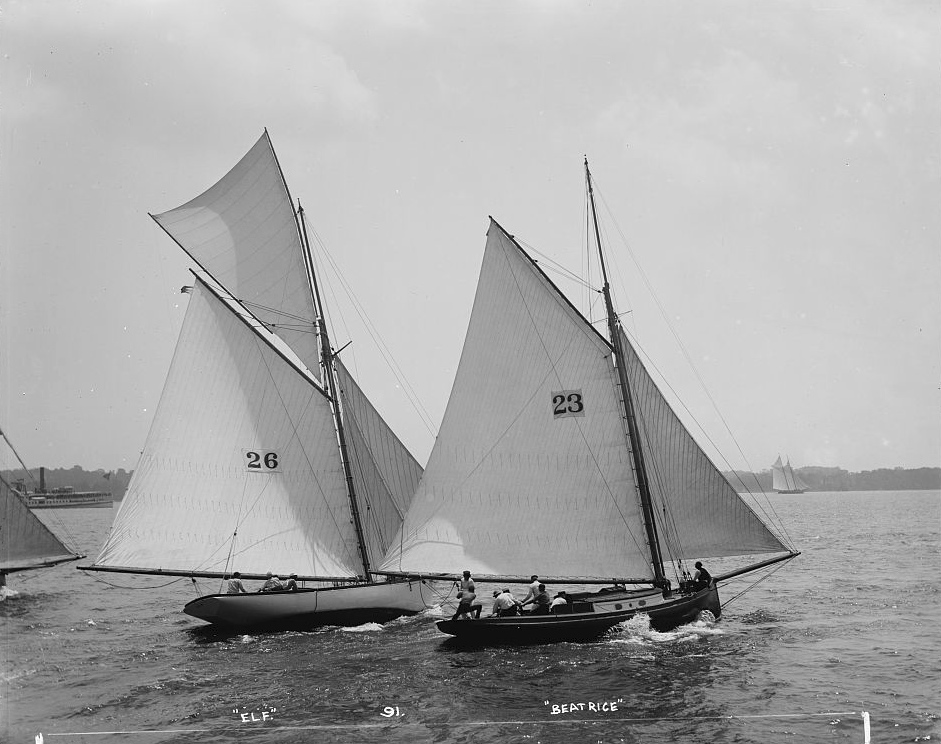 The yachts "Elf" and "Beatrice" dated 1890-1900. THE ELF (yacht) was listed on the NRHP on March 26, 1980 (reference #80001807)then docked on the Sassafras River, Fredericktown, Cecil County, Maryland.